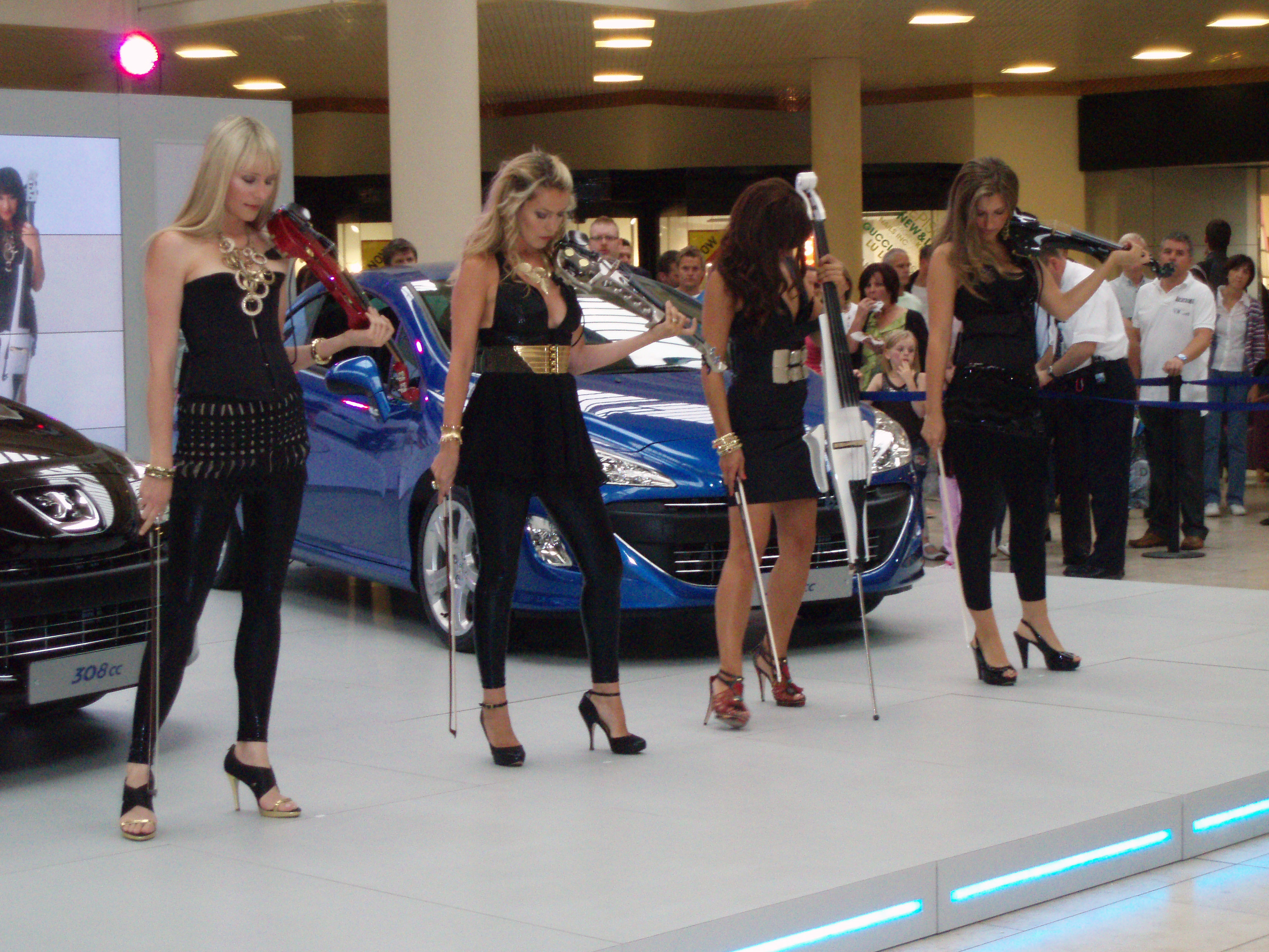 Bond performing at the Metrocentre in Gateshead, UK in promotion of Peugeot on 27 June 2009.